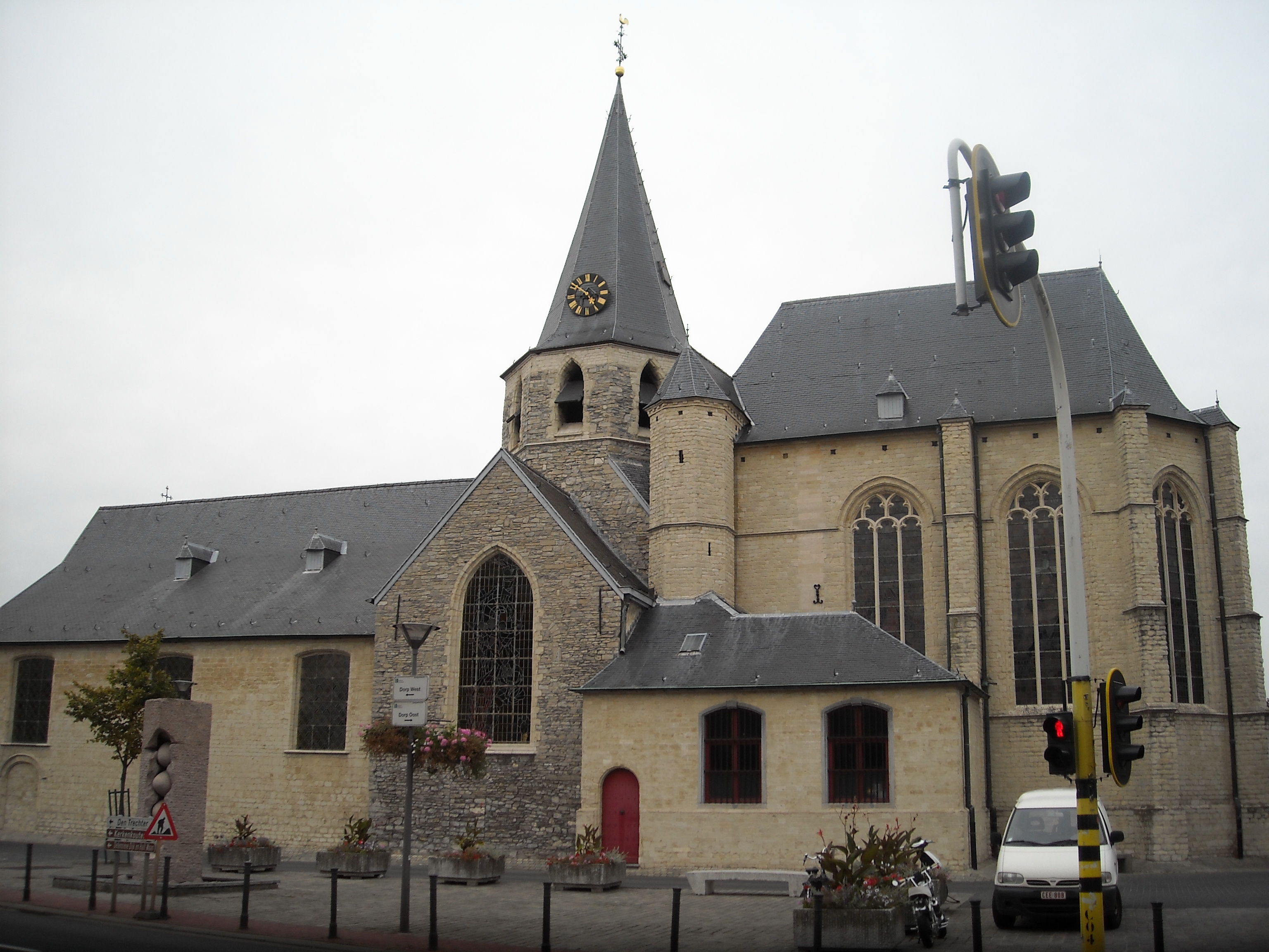 Holy Cross Church, Dorp West 1, Zwijndrecht, BE, 12th-20th century.